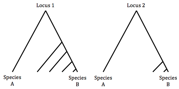 See HKA Test Page